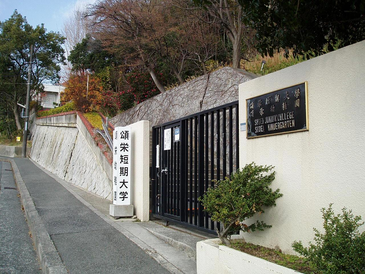 Main entrance to Shoei Junior College, located in Higashinada-ku, Kobe, Hyogo, Japan.